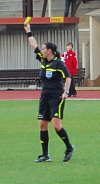 Dagmar Damková showing a yellow card at Juliska stadium in a Czech 2. Liga match between FK Dukla Prague and FK Viktoria Žižkov